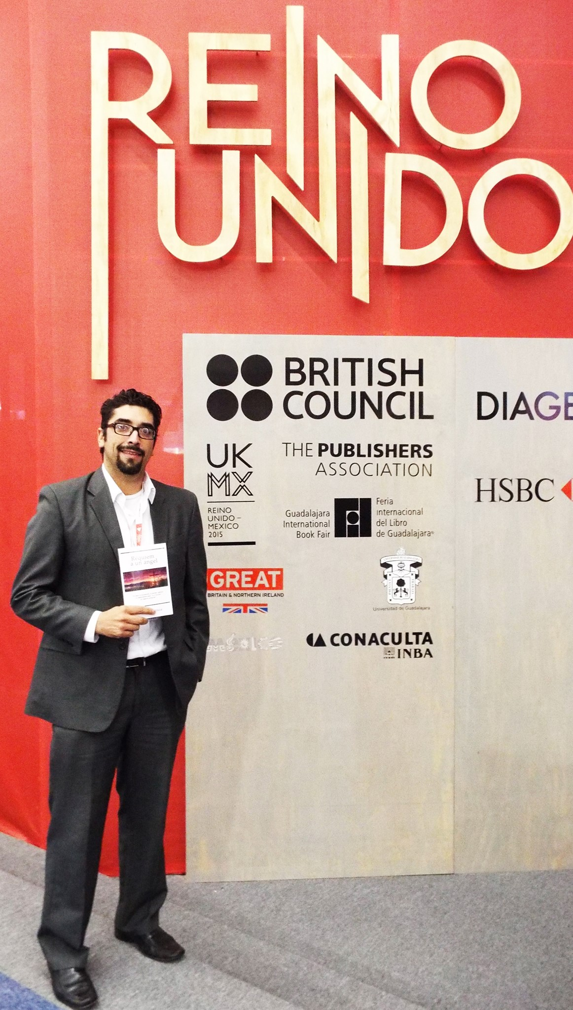 FIL Guadalajara 2015